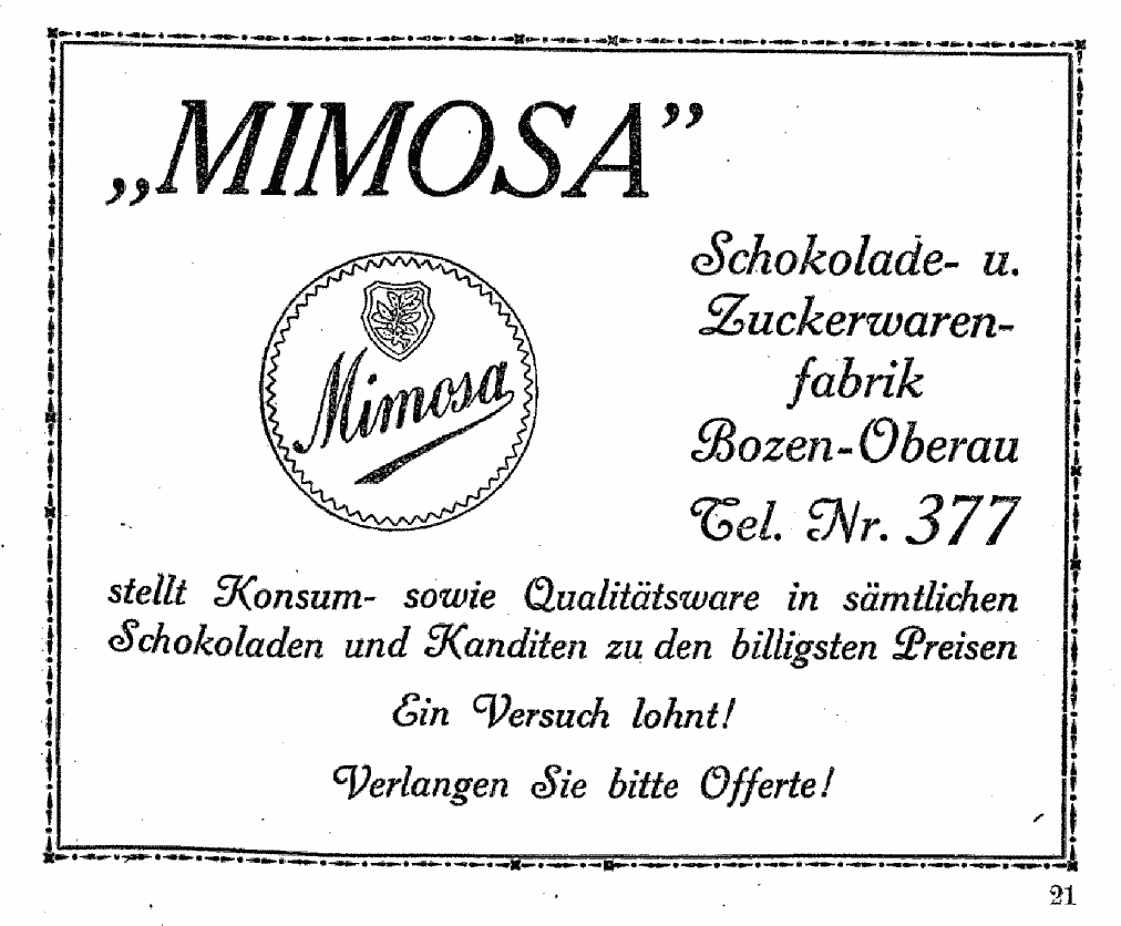 Advertisements for Chocolate fabric in Oberau-Bozen in South Tyrol's Telephone directory from 1925 (Bozen-Bolzano)